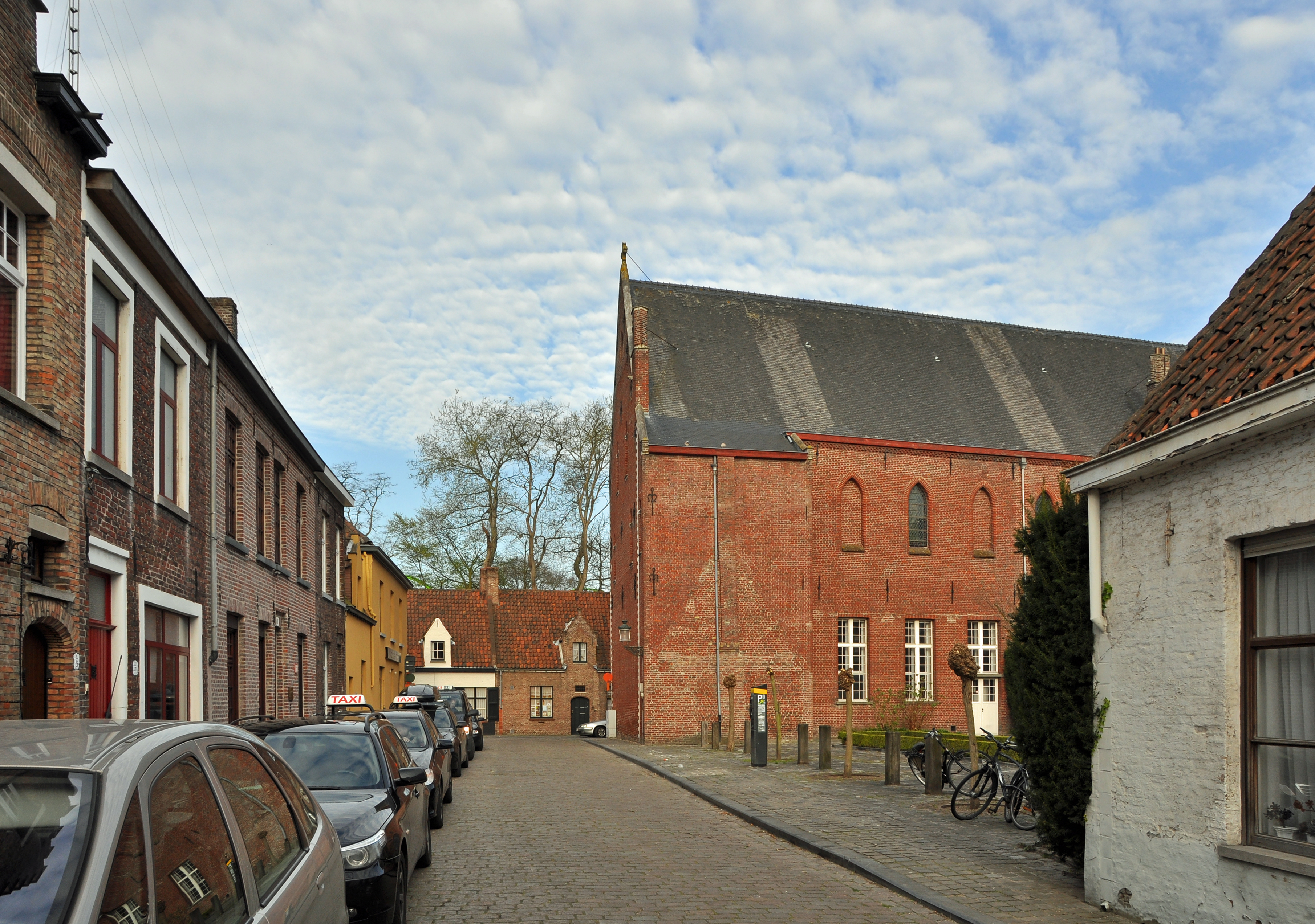 Bruges (Belgium): Sint-Obrechtsstraat